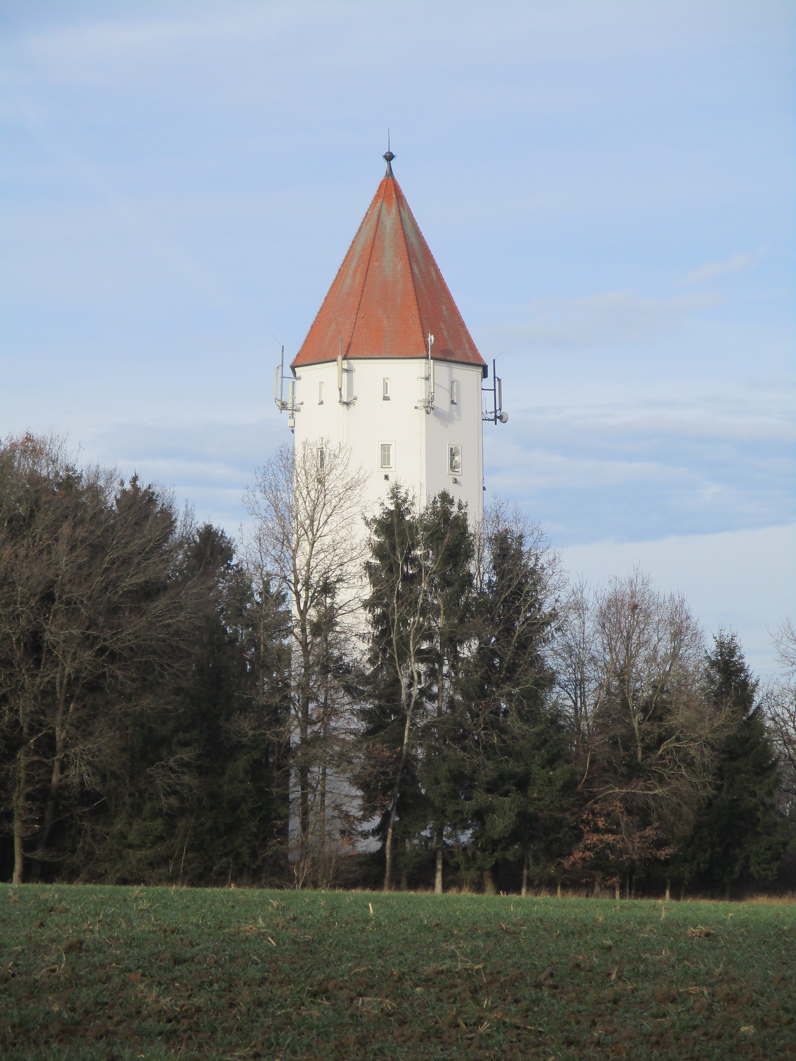 The water tower at Buchdorf, Bavaria, a very recognisable landmark when travelling on the Bundesstraße 2 past the village. The image was taken from the east.